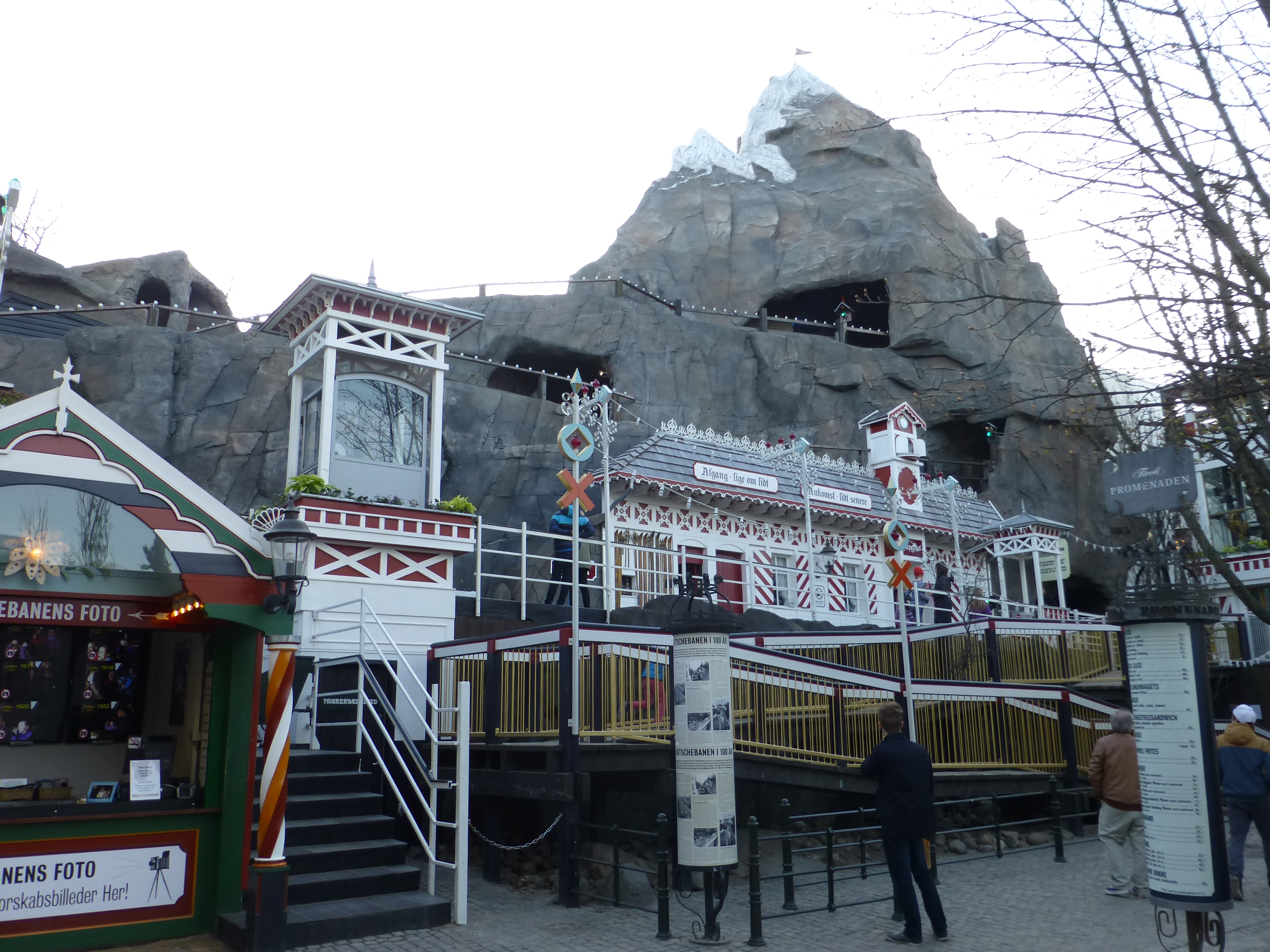 The old roller coaster in the amusement park Tivoli in Copenhagen.